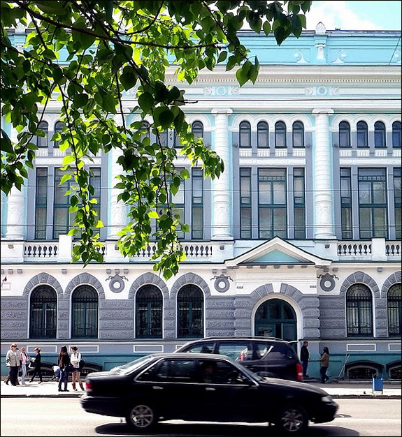 Library of Tomsk State University